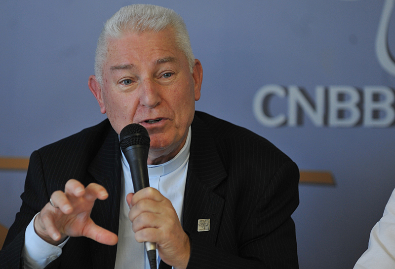 Picture of Dadeus Grings.